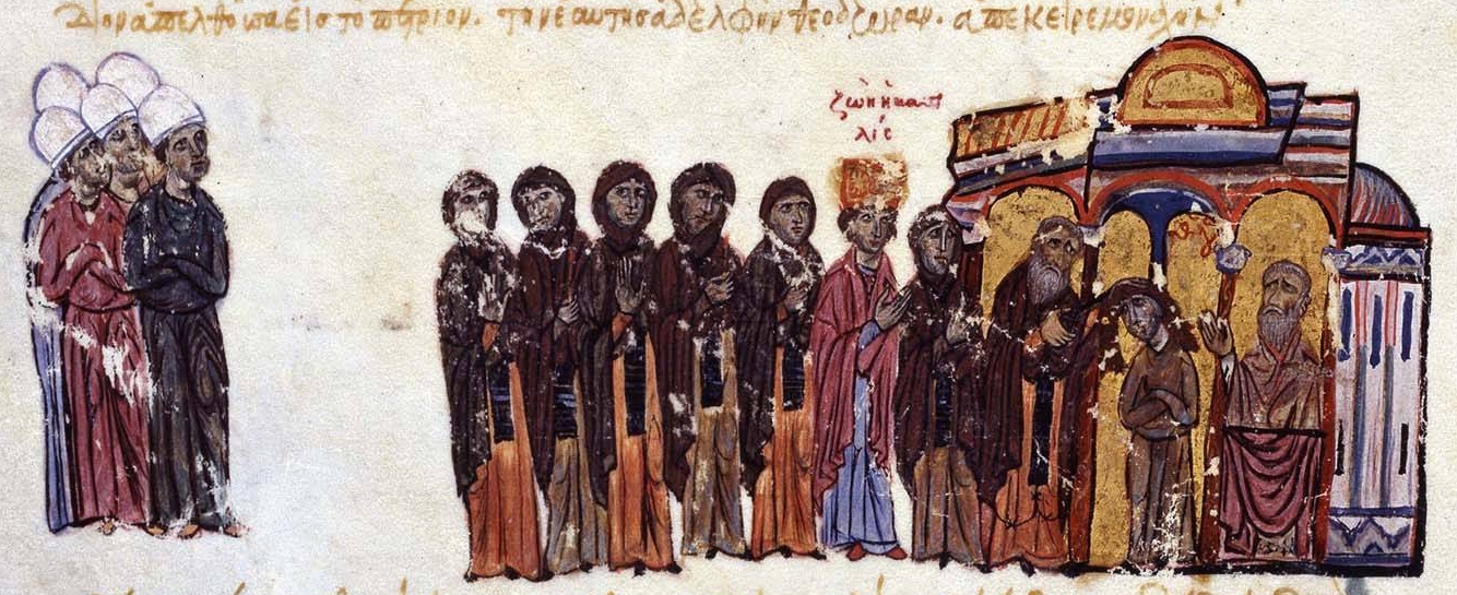 Empress Zoe tonsures her sister Theodora, miniature from the Madrid Skylitzes, Fol. 204r bottom